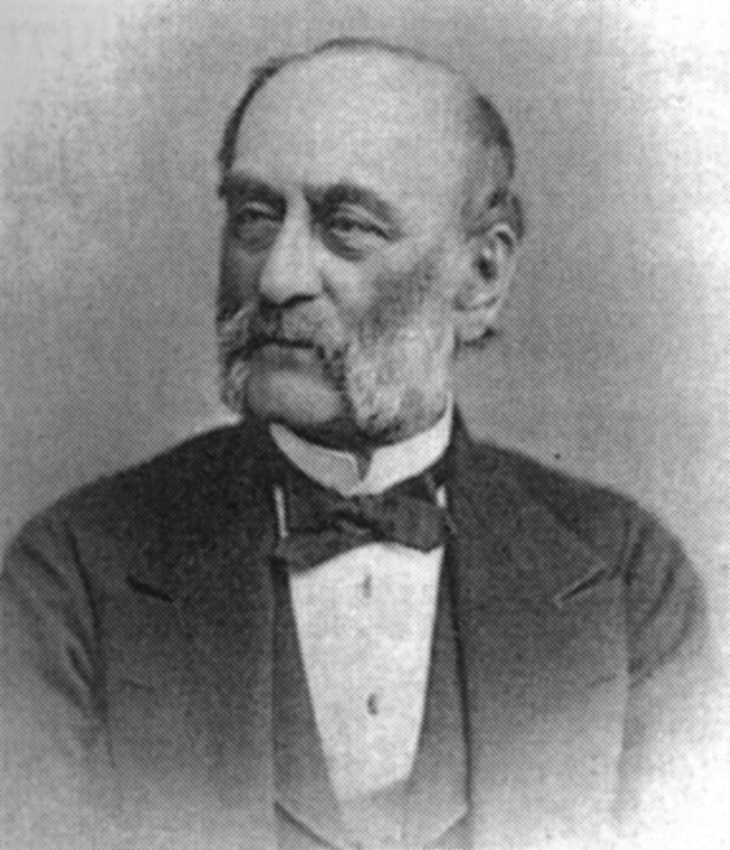 American ornithologist Thomas Mayo Brewer (1814-1880), flipped version of head-and-shoulders, facing right portrait by Frederick Gutekunst (1831-1917), Philadelphia photographer.